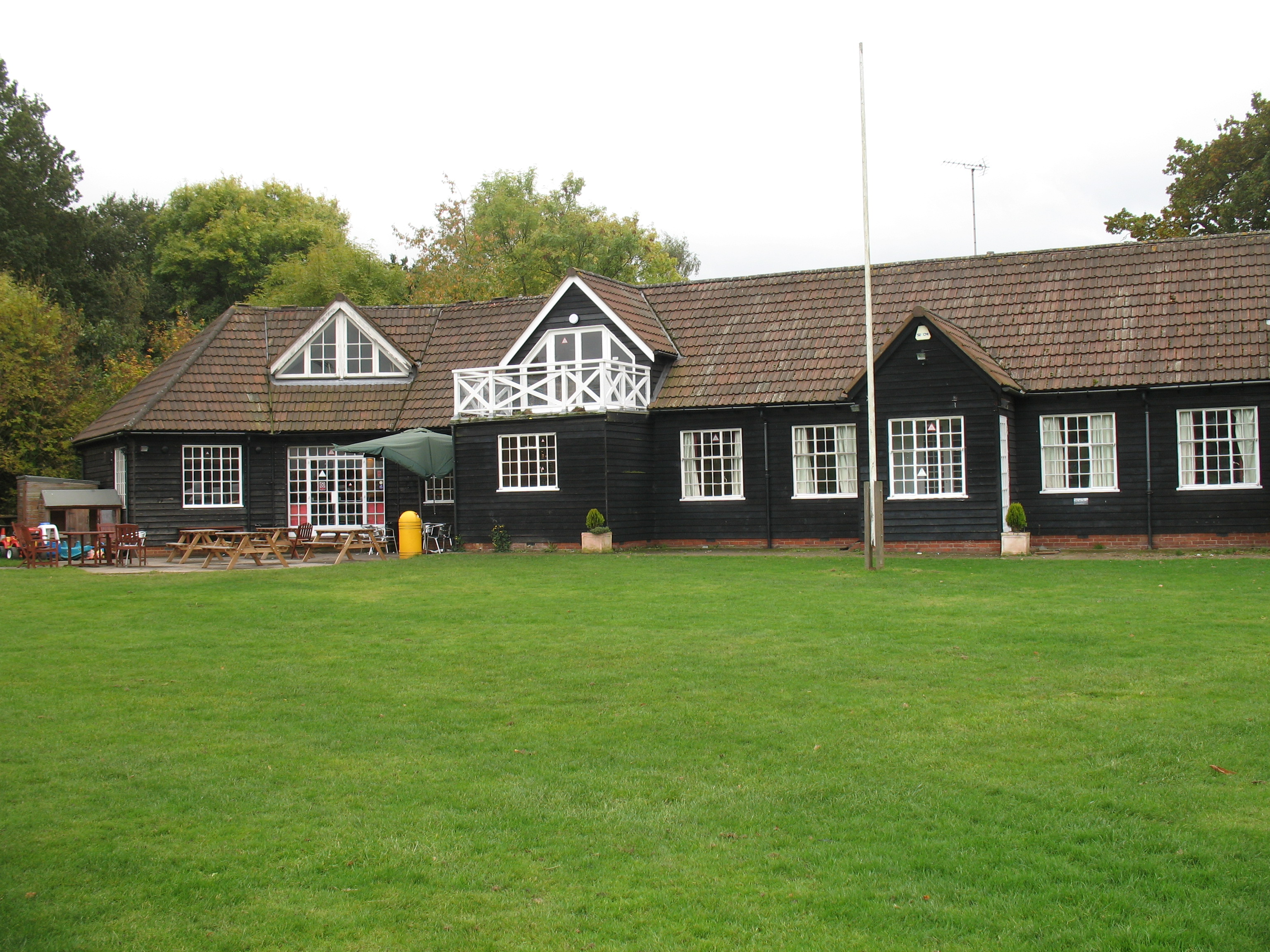 A photograph of the outside of the Old Cranleighan Sports Club in Thames Ditton, where the Ram Club is located.